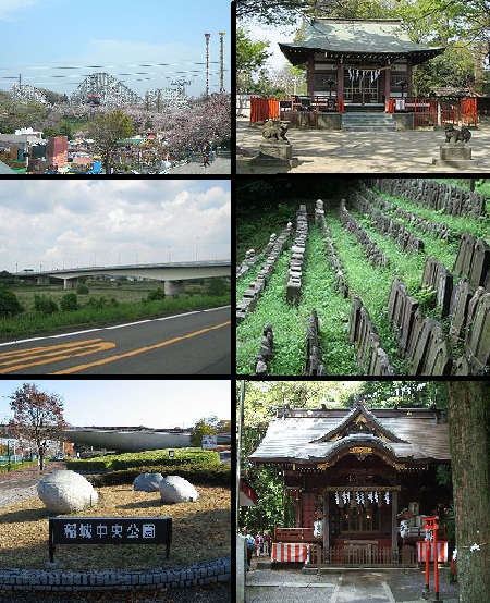 Inagi montage